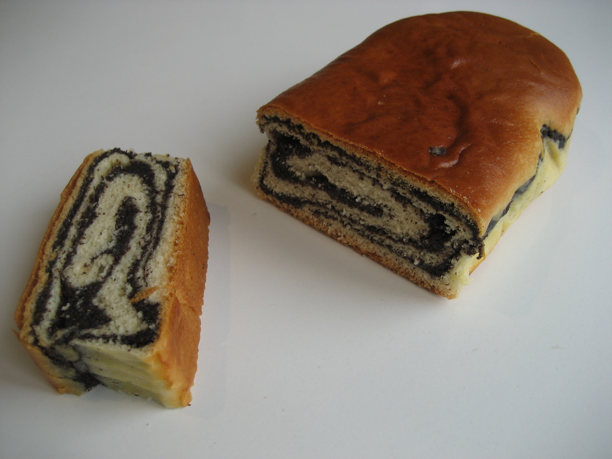 Poppy seed roll